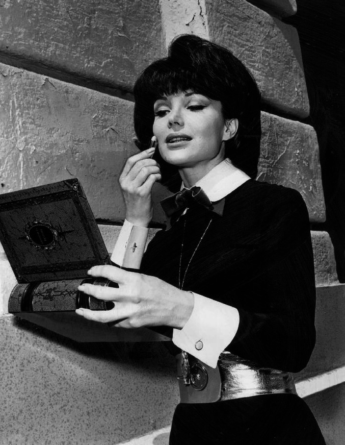 Photo of Francine York as Lydia Limpet, an associate of the Batman villan, the Bookworm (played by Roddy McDowell), from the television program Batman.